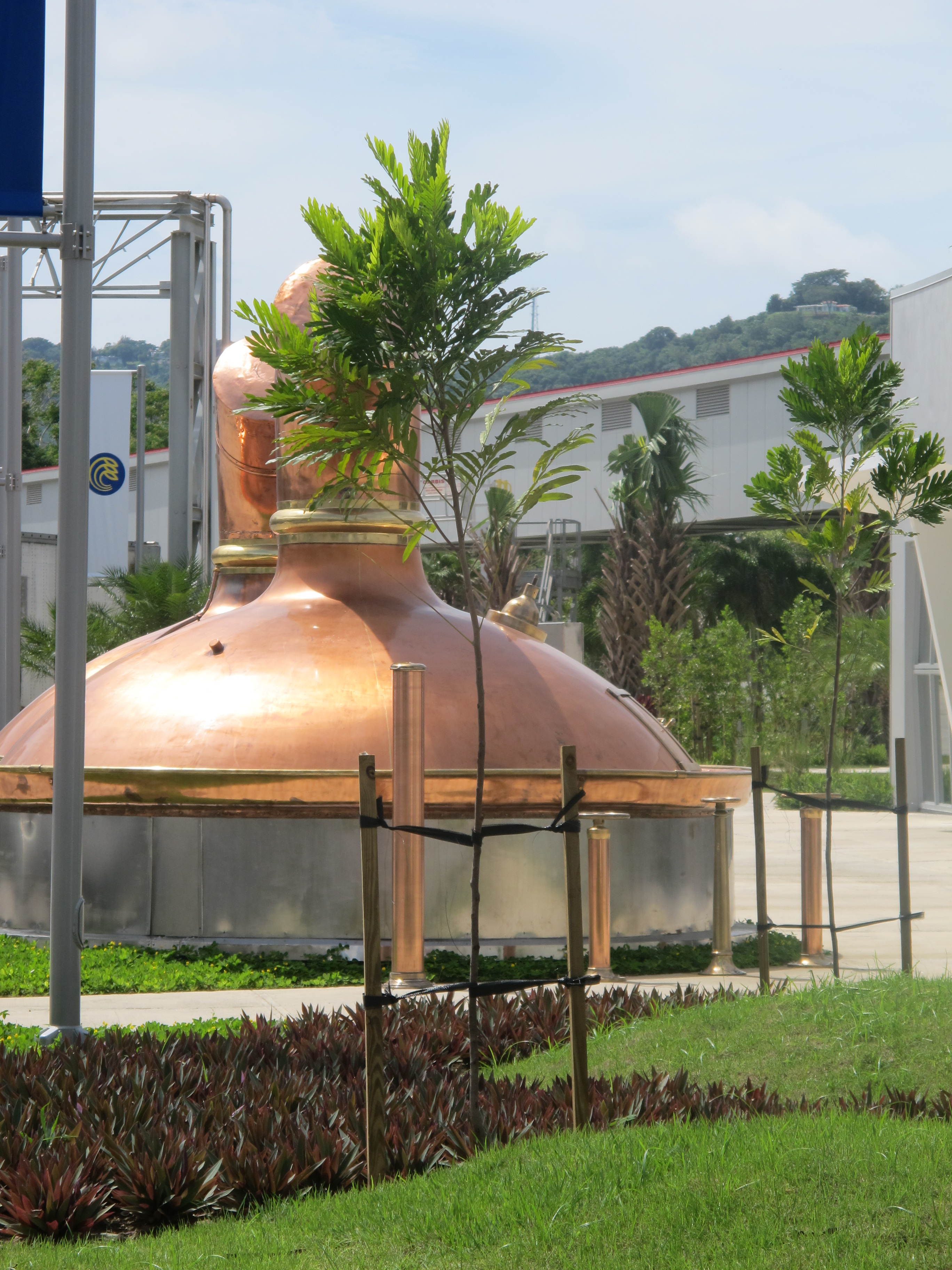 Cervecera de Puerto Rico, Mayagüez, Puerto Rico